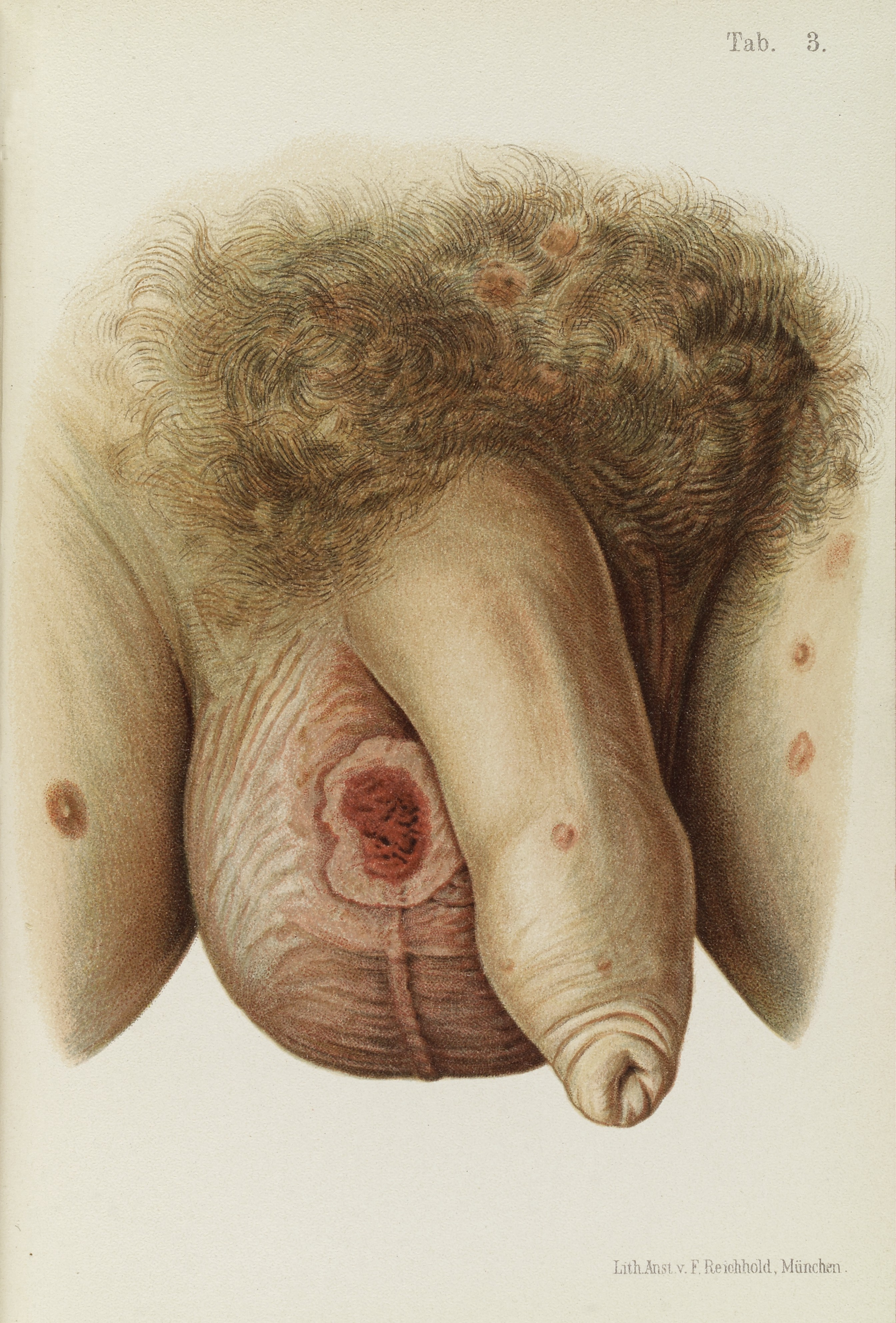 Coloured illustration of scrotum diseased with Syphilis. General Collections Keywords: Venereal Diseases; Sexually Transmitted Diseases; Syphilis; Disease; Skin; Penis; Scrotum; Pubis; Sexually transmitted disease